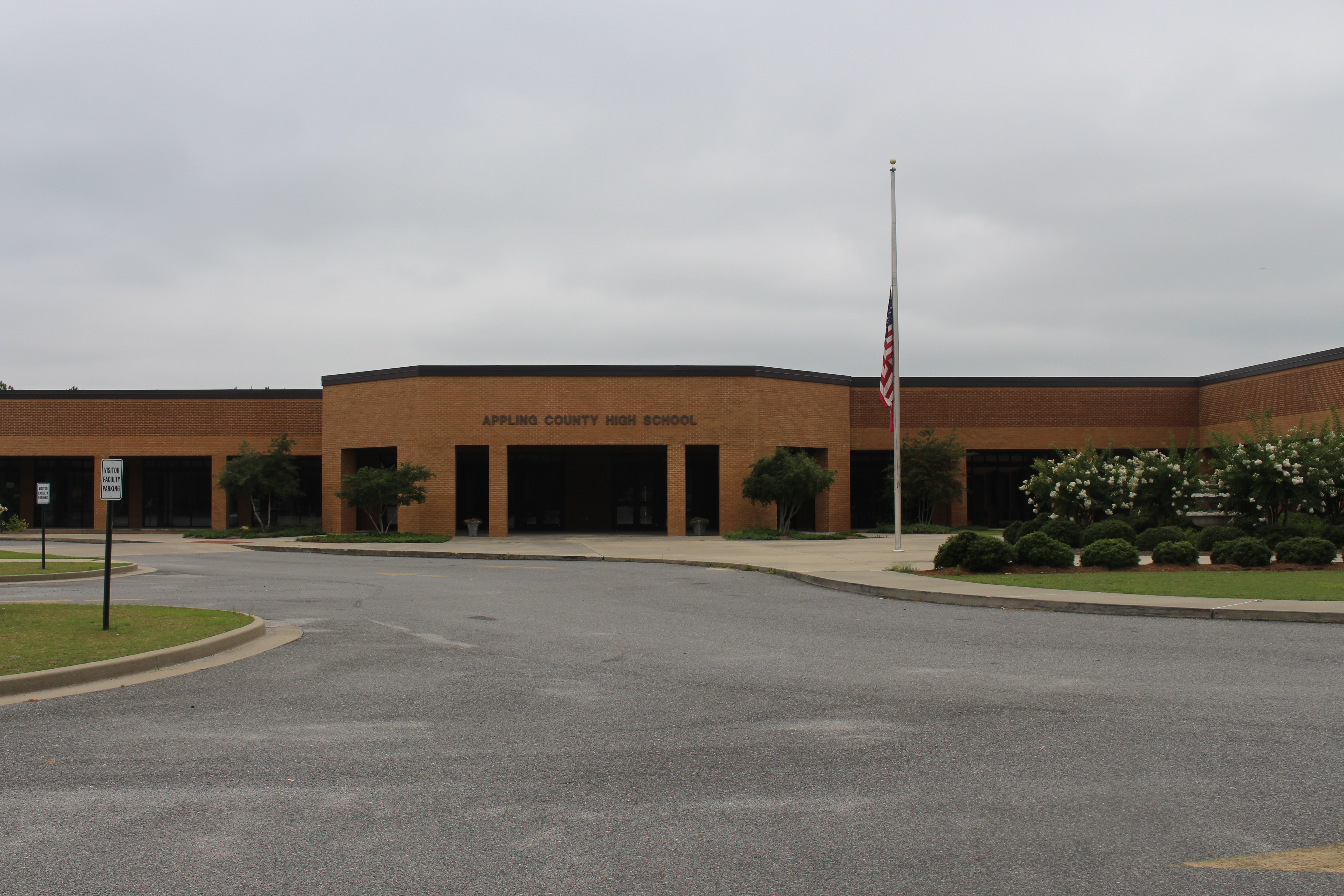 Appling County High School, Baxley, Appling County, Georgia. The flags were half staff due to the Orlando nightclub shooting